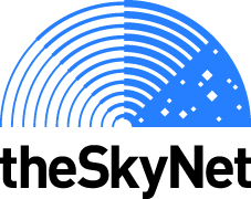 Logo of theSkyNet distributed computing project